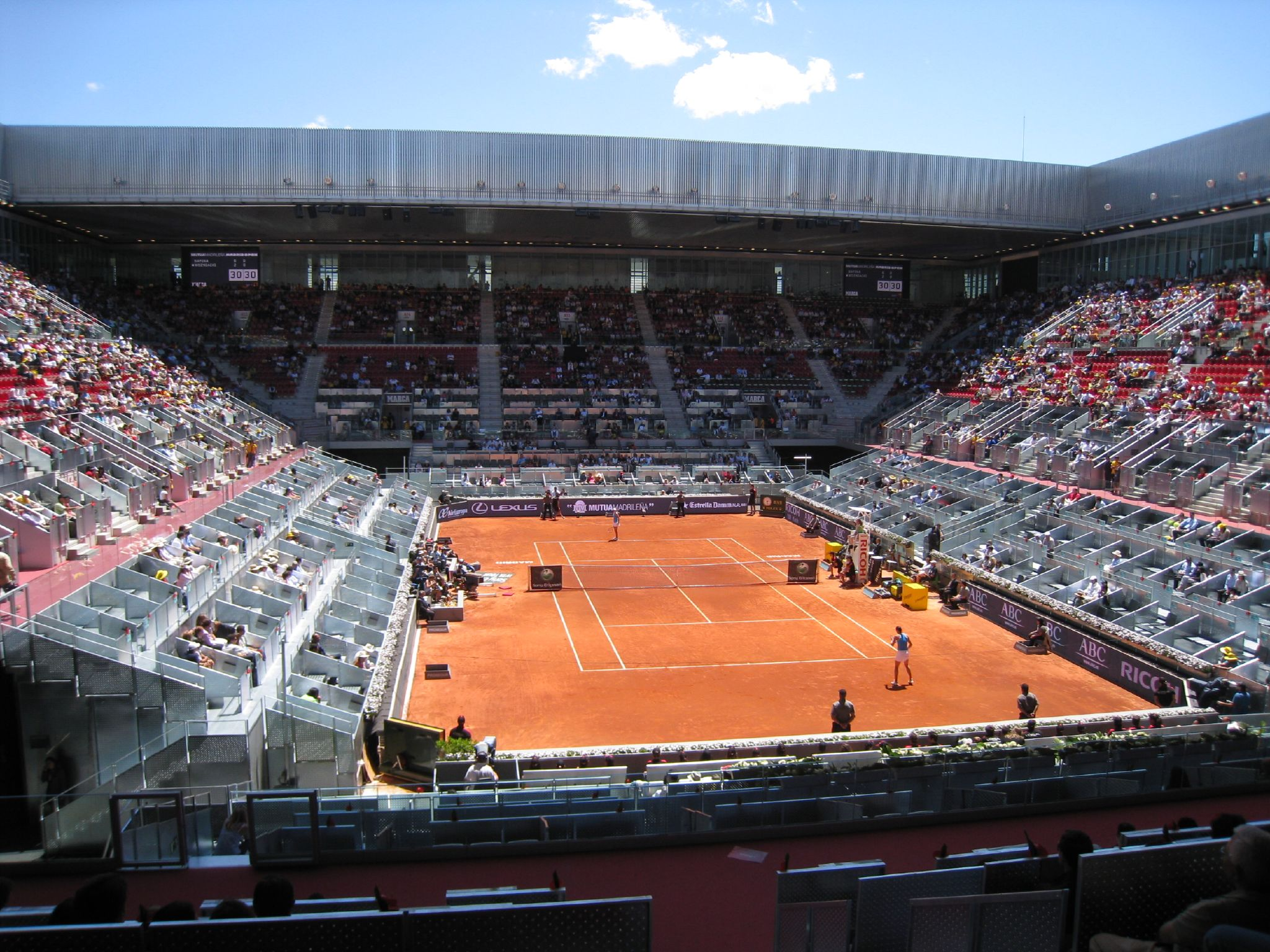 Caroline Wozniacki against Dinara Safina in the 2009 Mutua Madrileña Madrid Open final